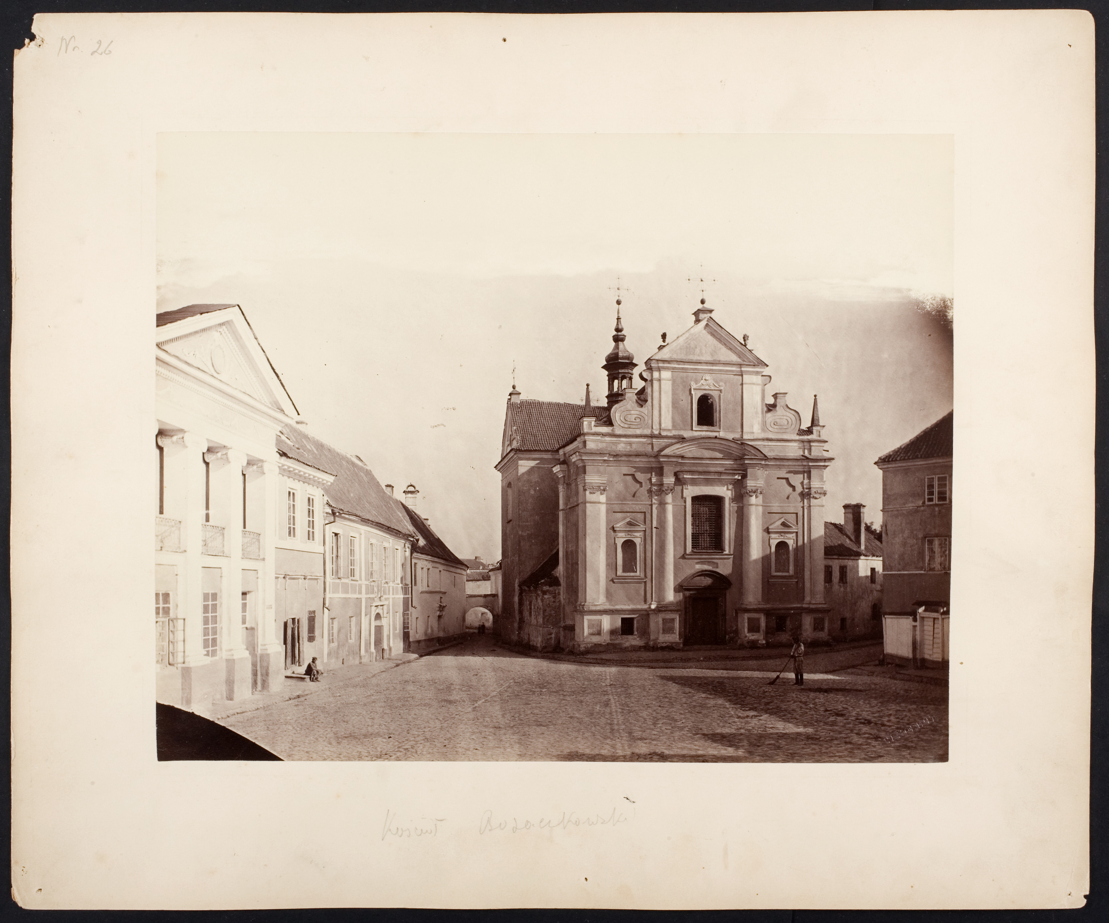 Church of Saint Joseph